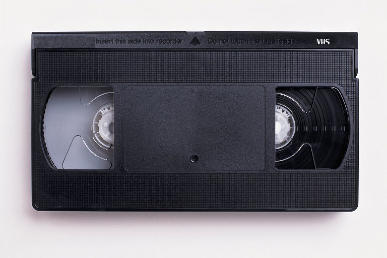 Visual of the top view of a VHS cassette